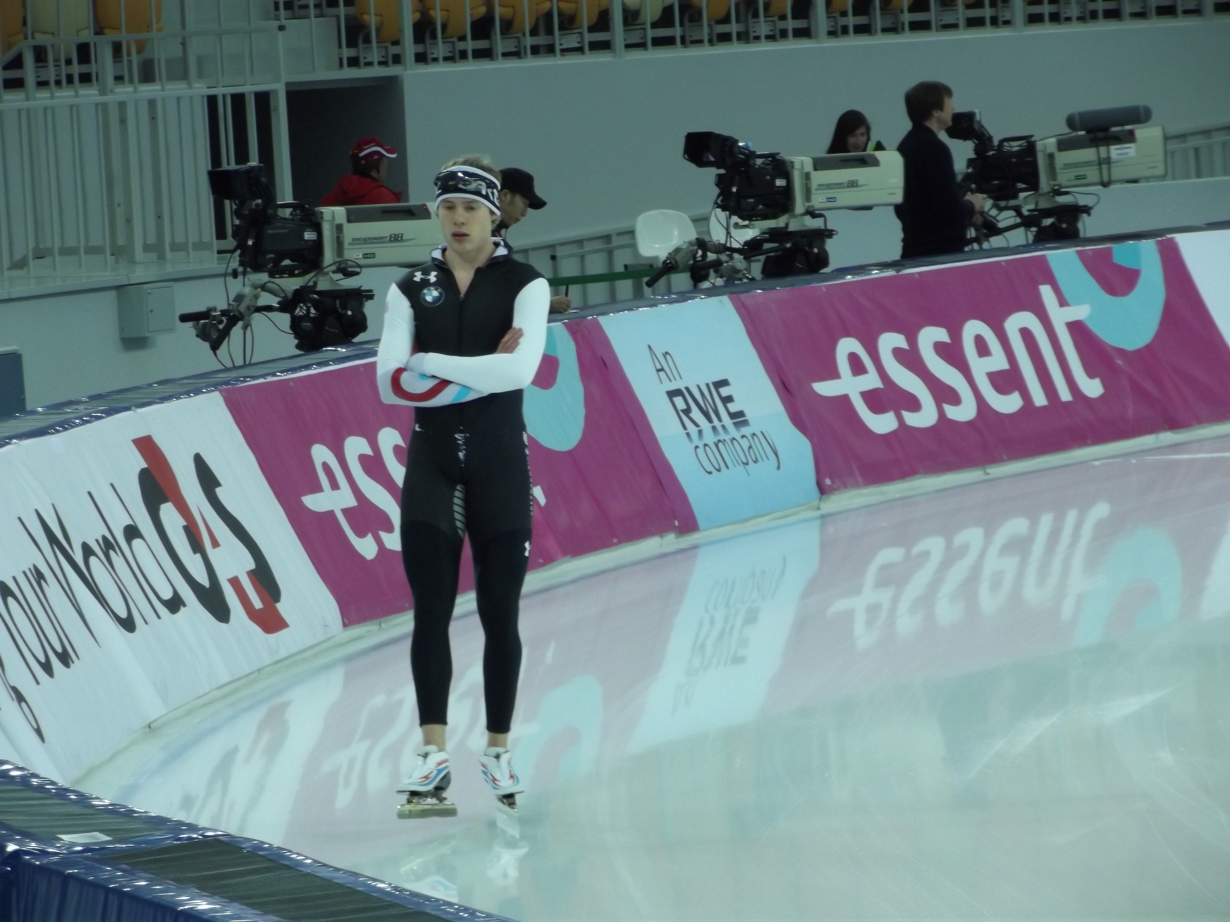 2013 World Single Distance Speed Skating Championships